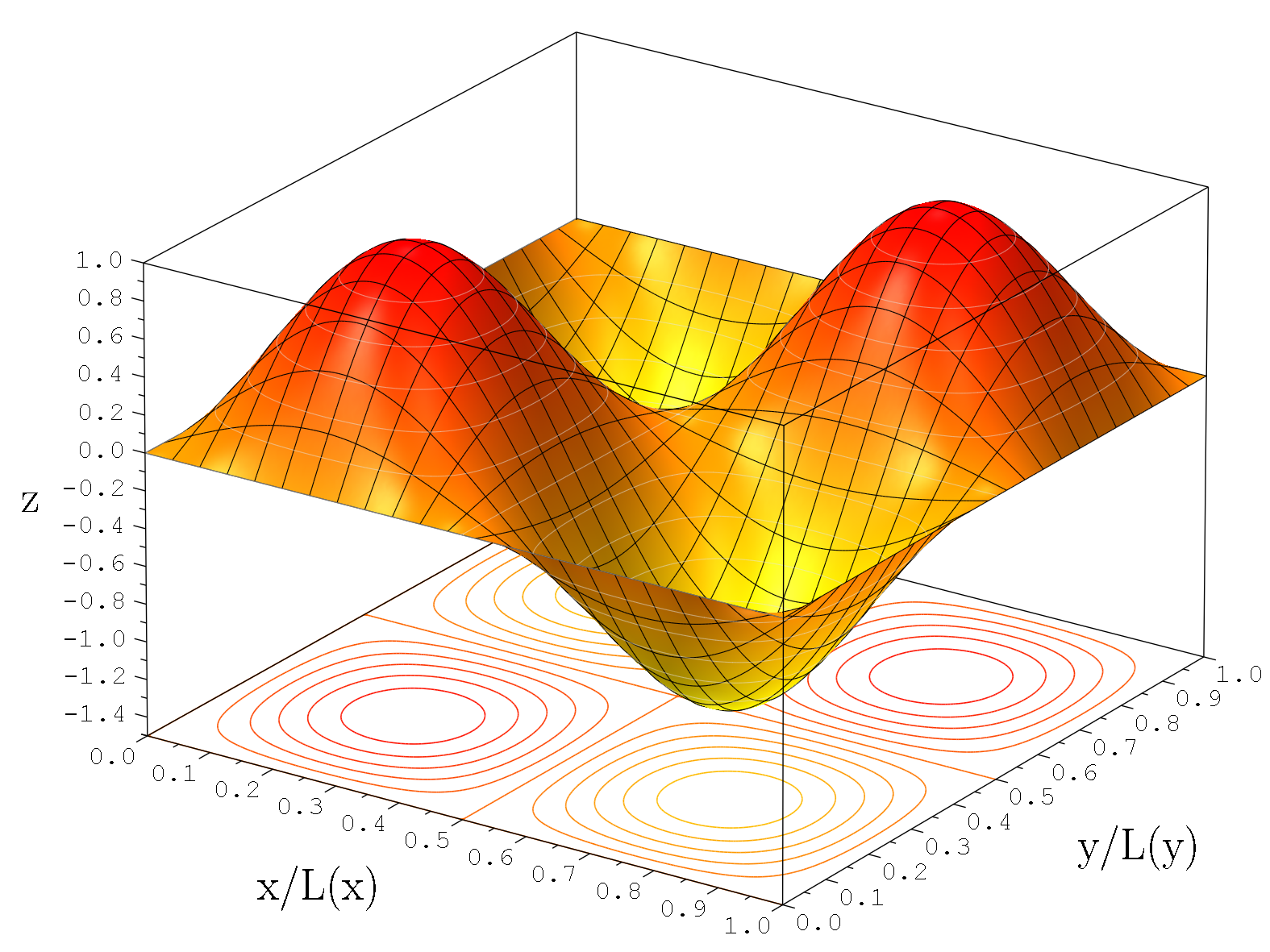 The quantum wavefunction of a particle in a 2D infinite potential well of dimensions Lx and Ly. The wavenumbers are: nx=2 ny=2 The wavefunction, shown as z on the plot, is given by: ψ n x , n y = ψ 0 sin ⁡ ( n x π x L ) sin ⁡ ( n y π x L ) {\displaystyle \psi _{n_{x},n_{y =\psi _{0}\sin \left({\frac {n_{x}\pi x}{L \right)\sin \left({\frac {n_{y}\pi x}{L \right)}